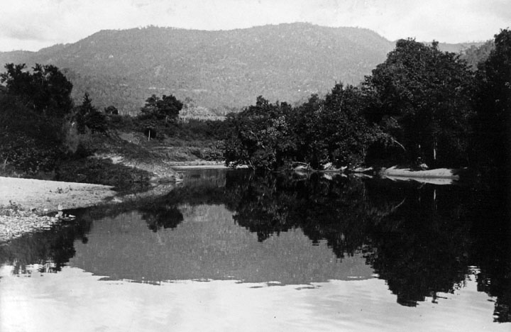 Little Mulgrave River near Gordonvale. (Original photograph caption: Little Russell River near Cairns, [corrected in pencil].)